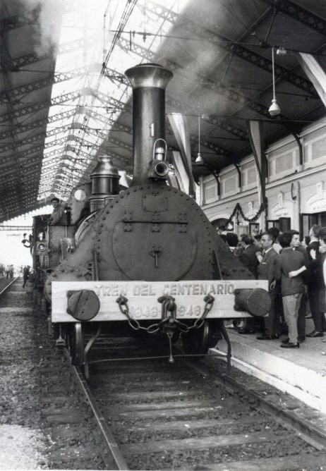 Fotografía de la réplica del centenario de La Mataró.